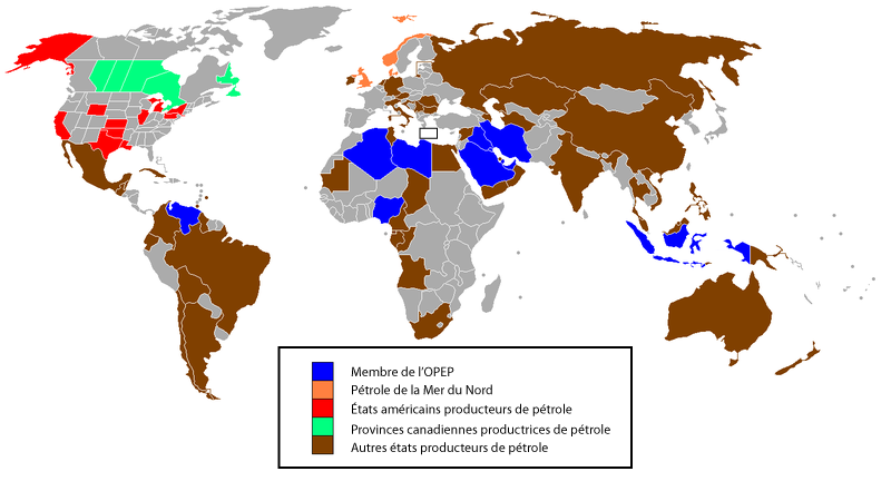 translation of Image:Oil producing countries map.PNG traduction de Image:Oil producing countries map.PNG